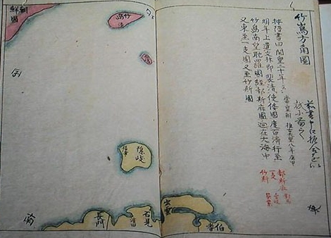 the map of Dokdo(Takeshima) island between the South Korea and Japan